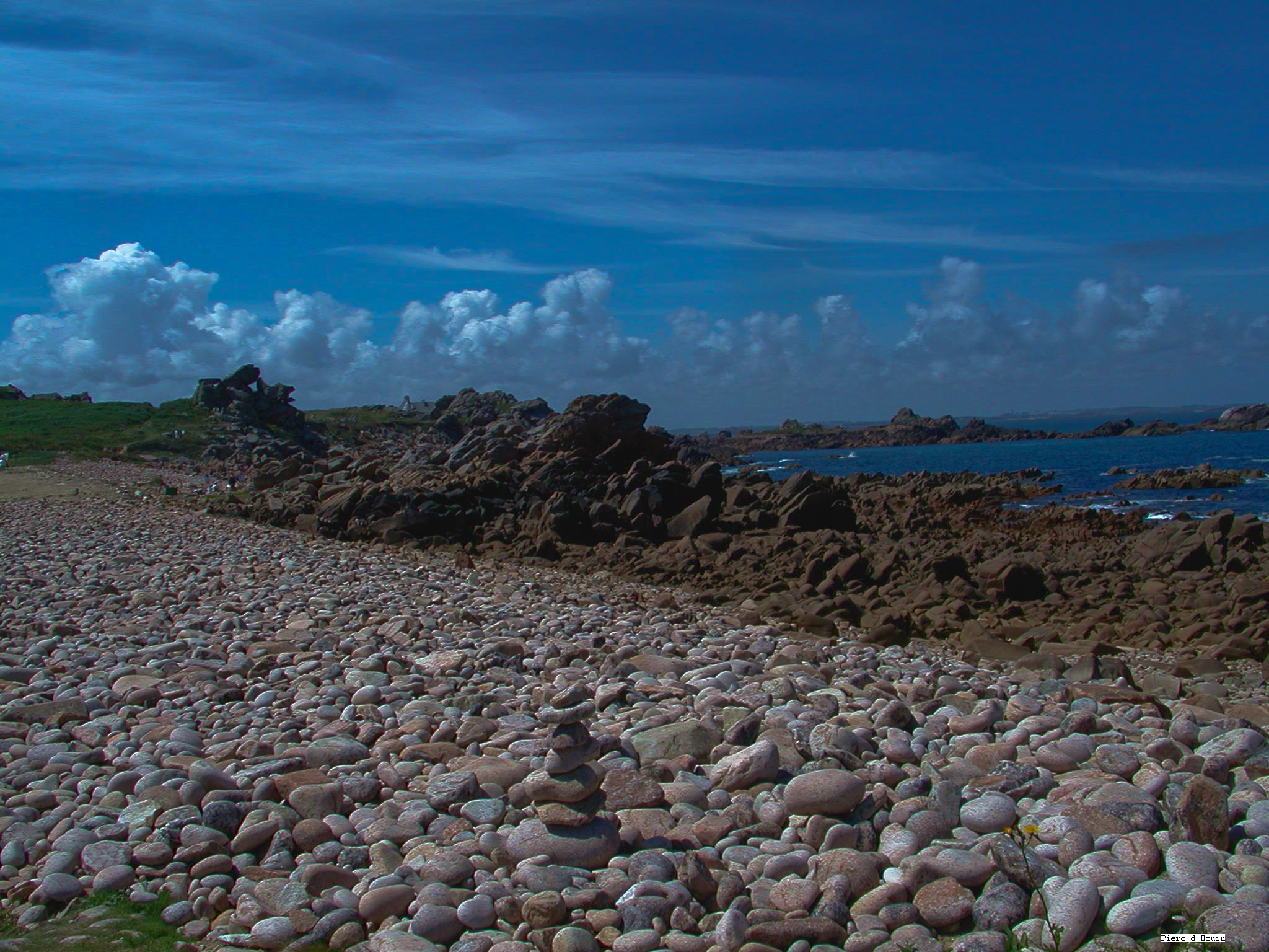 Sea pebbles in Brittany, France.